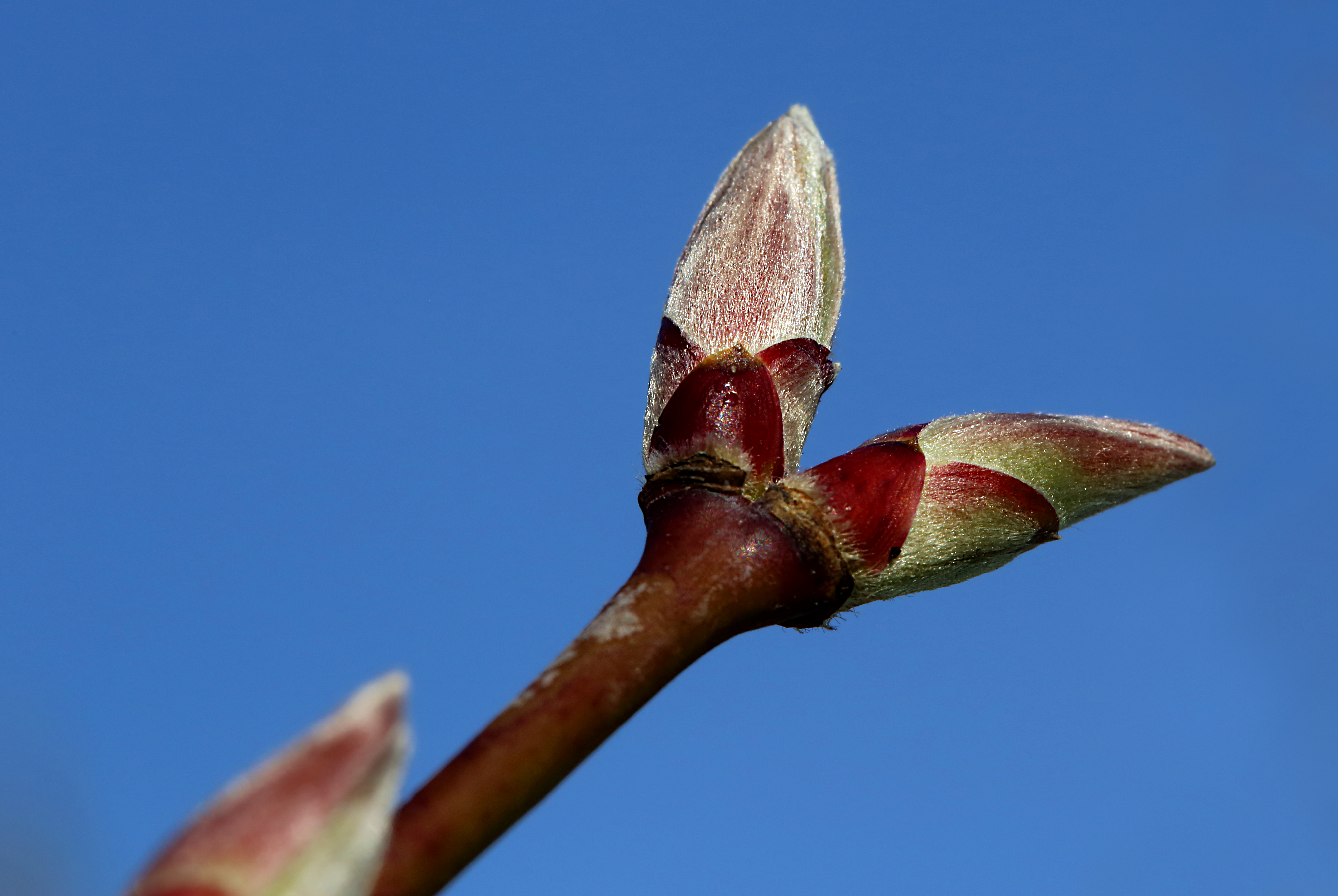 Maple. Buds of Acer schirasawanum 'Aureum', picture taken in Belgium.